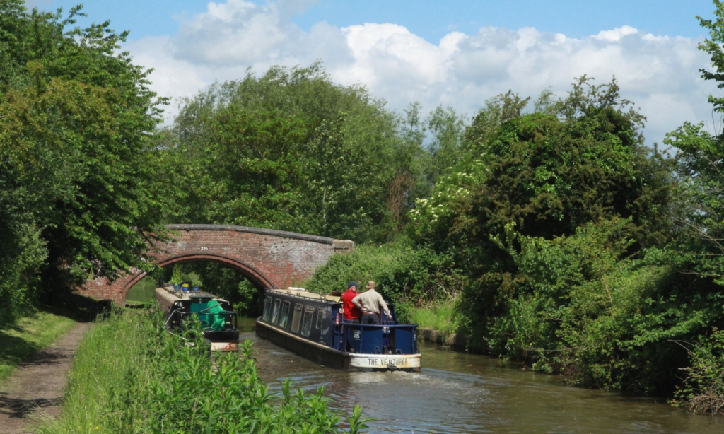 Narrowboats at Ball's Bridge, Bridge 236 over the Oxford Canal at Upper Wolvercote, Oxfordshire. That under way on the right is Venturer, which is disabled-accessible and is owned by a charitable trust.